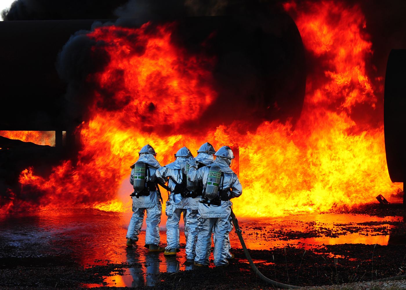 Dyess and Abilene Regional airport firefighters team up to extinguish an aircraft fire during a joint training exercise here Nov 5. Firefighters from ABI are required by the Federal Aviation Association to be proficient in extinguishing aircraft fires. By inviting them onto the base, Dyess firefighters facilitate a means to achieve their annual training and foster a working relationship. (U.S. Air Force Photo/Airman 1st Class Chelsea Cummings) Location:DYESS AIR FORCE BASE, TX, US Related Photos: Camera: Nikon D3 License on Flickr (2011-01-26): CC-BY-2.0 Flickr tags: Fire, Texas, Air Force, training, DYESS AIR FORCE BASE